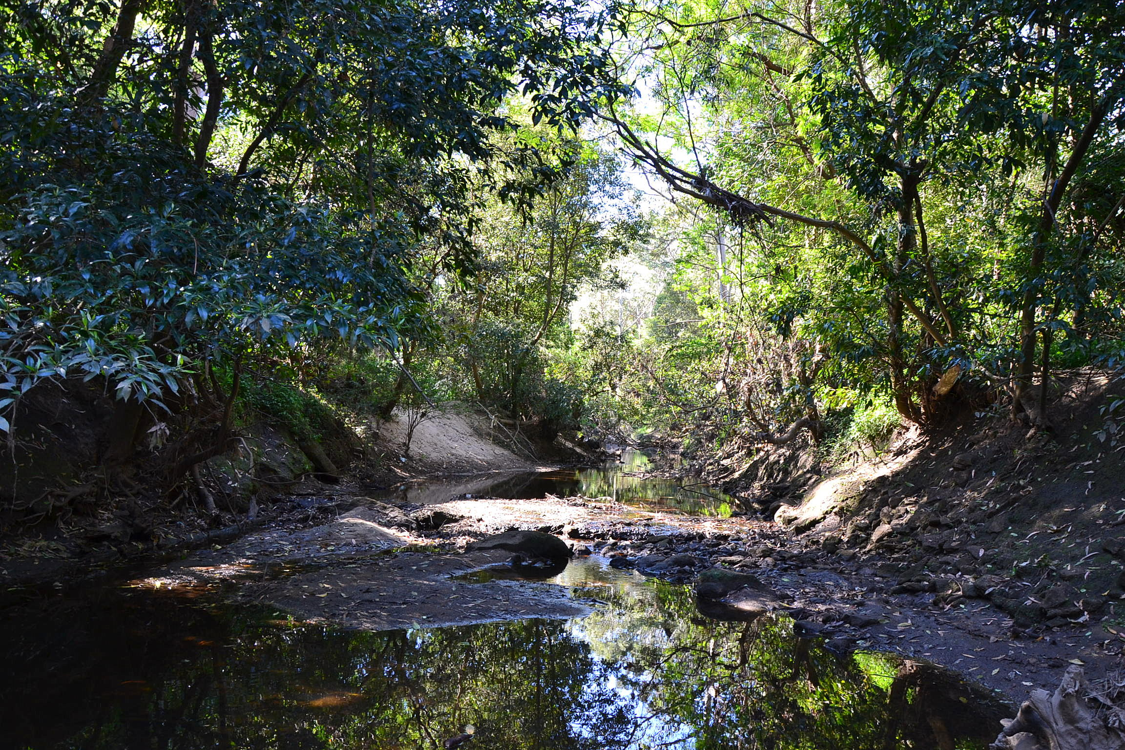 Lane Cove River, between Macquarie Park and West Pymble, Sydney